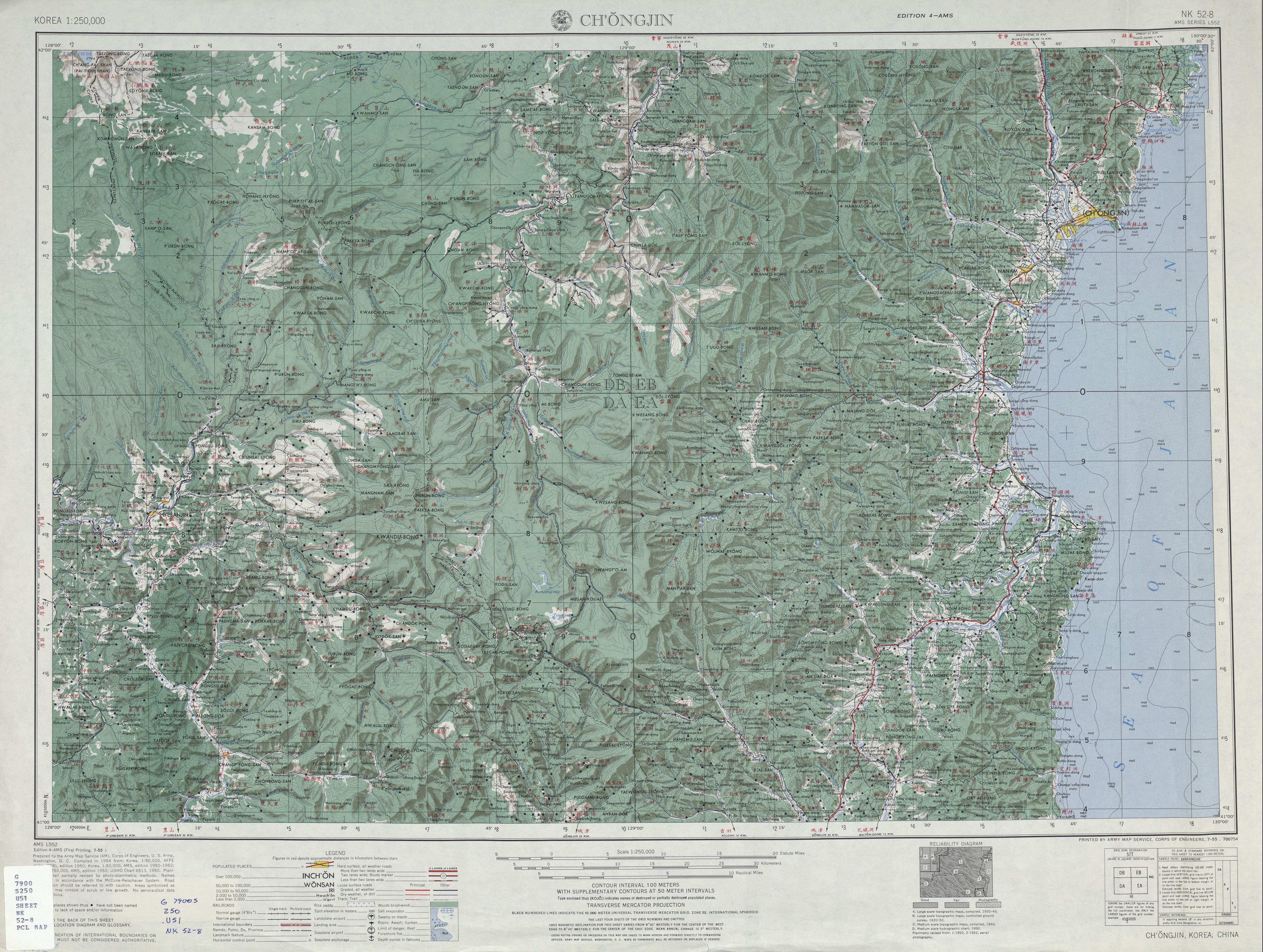 Map of part of the China-North Korea border